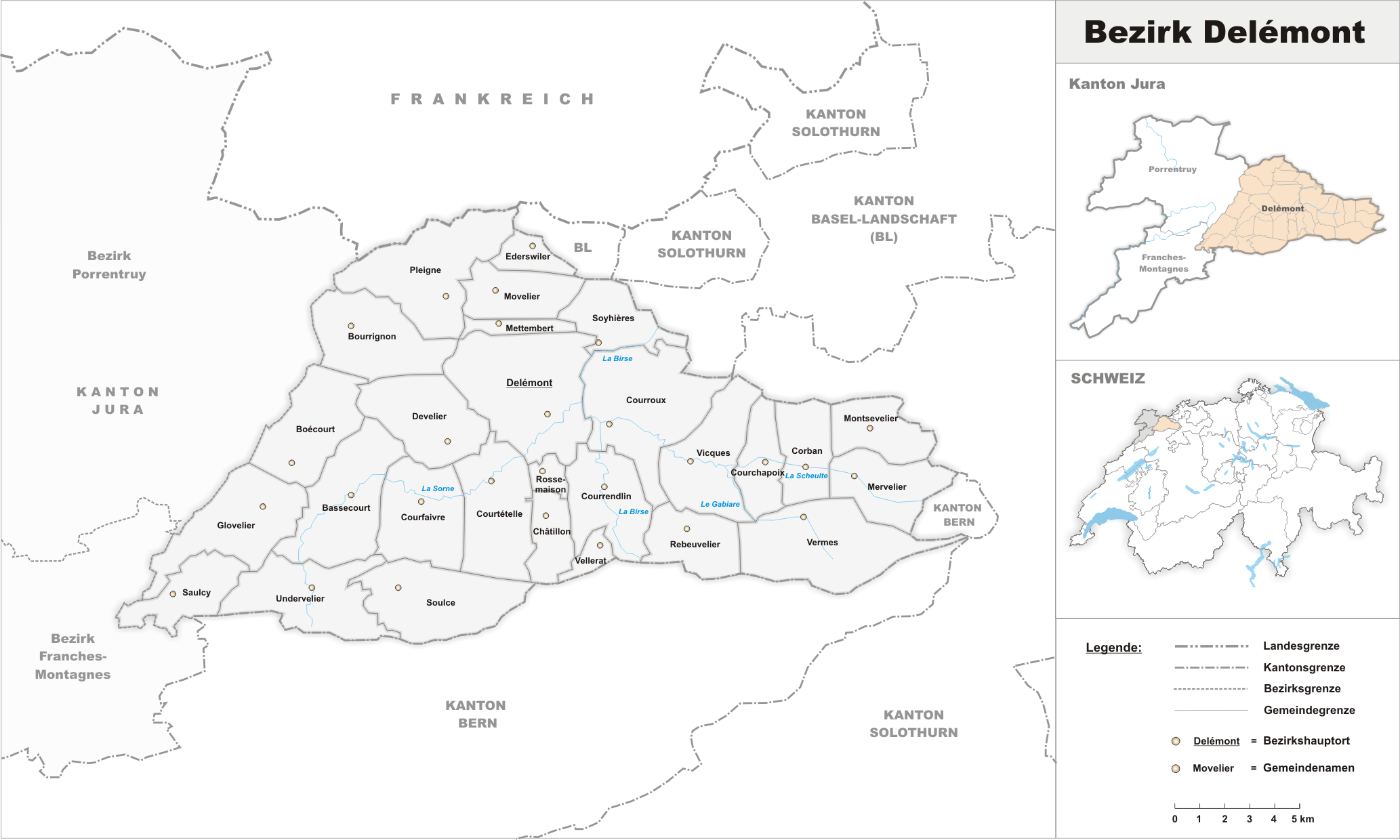 Municipalities in the district of Delémont to 2009